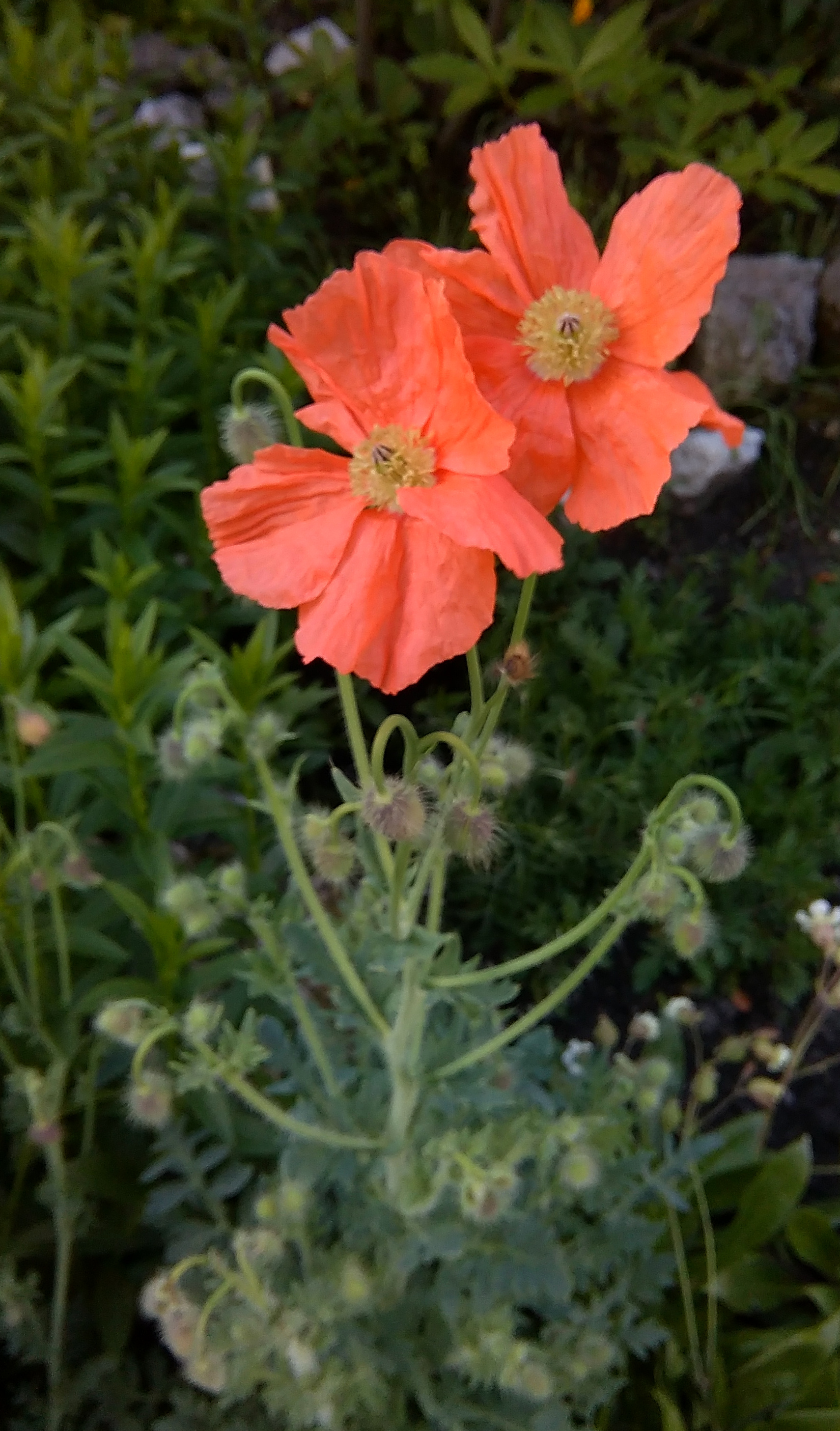 Papaver fugax (described as P. caucasicum) in botanical garden in Kraków, Poland